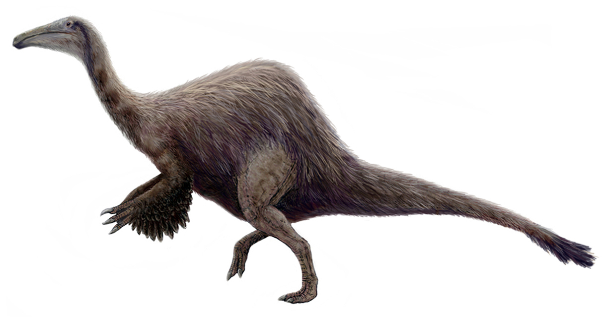 Deinocheirus mirificus restoration. Based on the skeletal diagram and description in Lee et al. (2014). Lee, Y.N. (2014). "Resolving the long-standing enigmas of a giant ornithomimosaur Deinocheirus mirificus". Nature 515 (7526): 257–260.